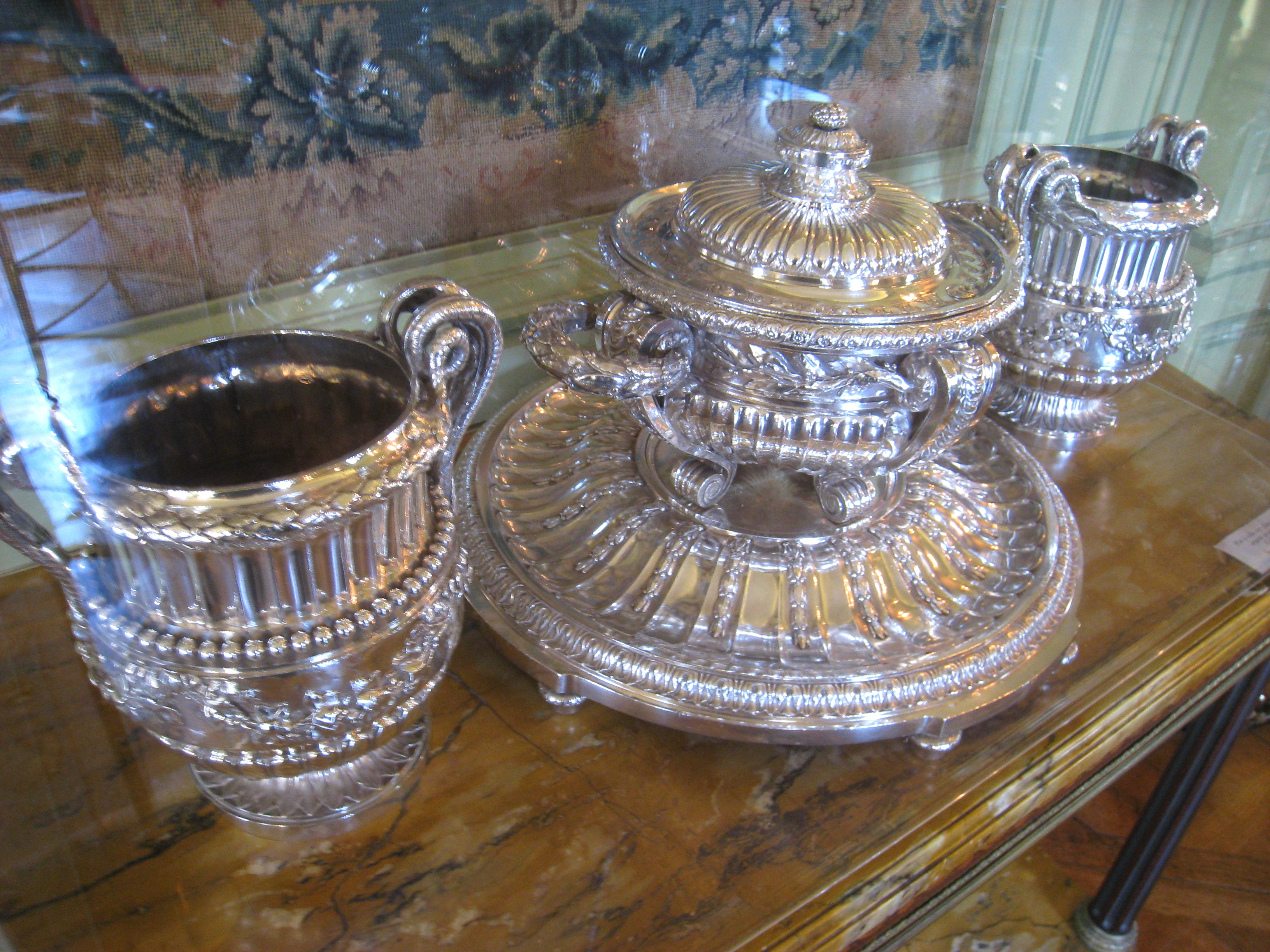 Musée Nissim de Camondo, Paris, France - Silver from the Orloff silver dinner service commissioned by Catherine II of Russia from silversmith Jacques-Nicolas Roettiers, 1770.